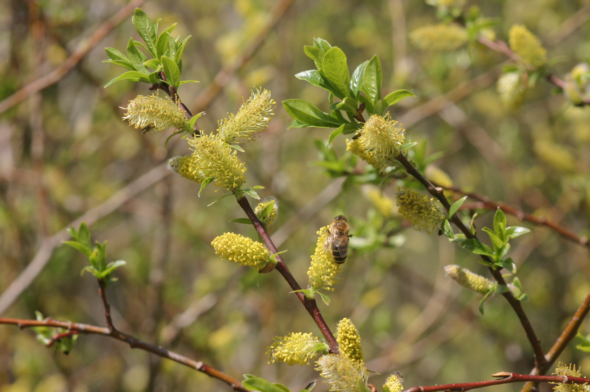 Salix myrsinifolia